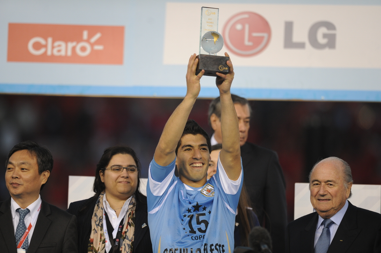 Uruguayan Luis Suarez with the award for the most valuable player of the 2011 Copa America.